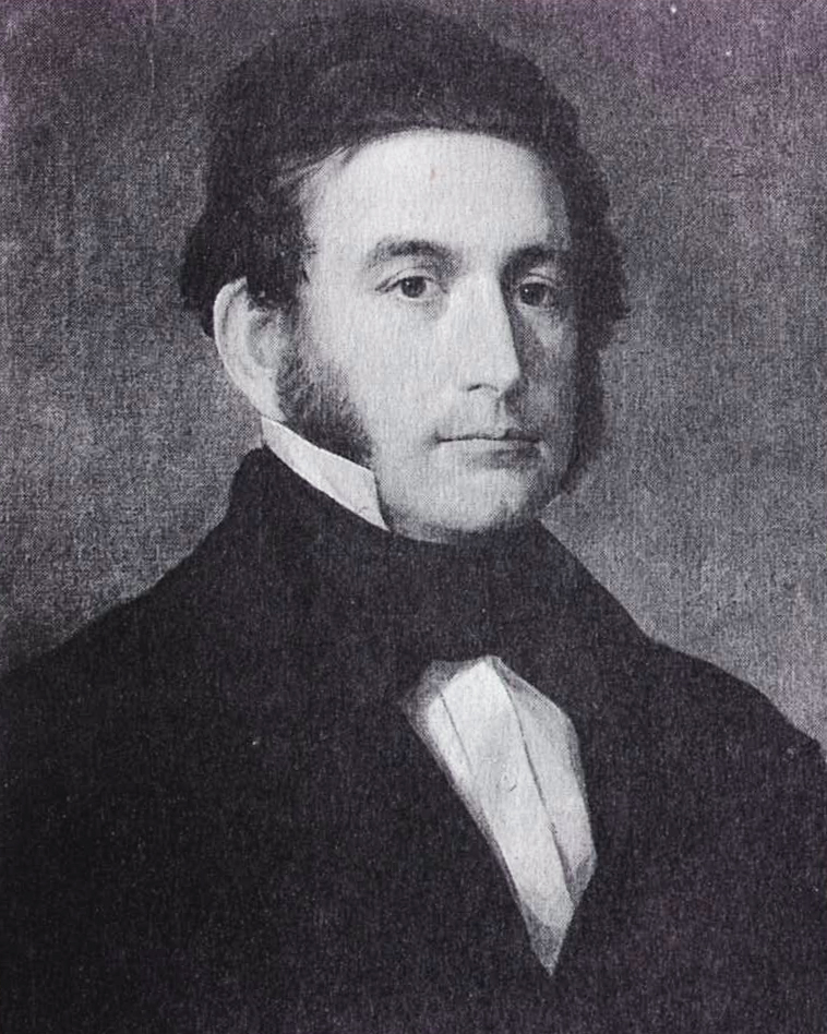 Oil portrait of American publisher and actor William Evans Burton (d. 1860)